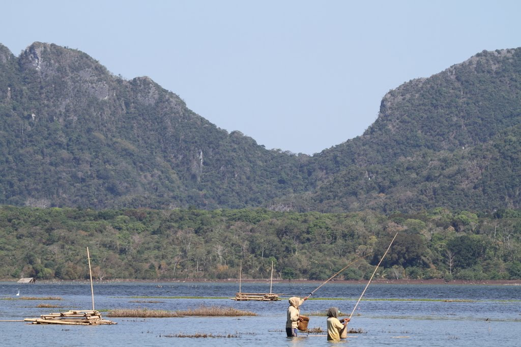 Fishing in flooded Lake Iralalaro